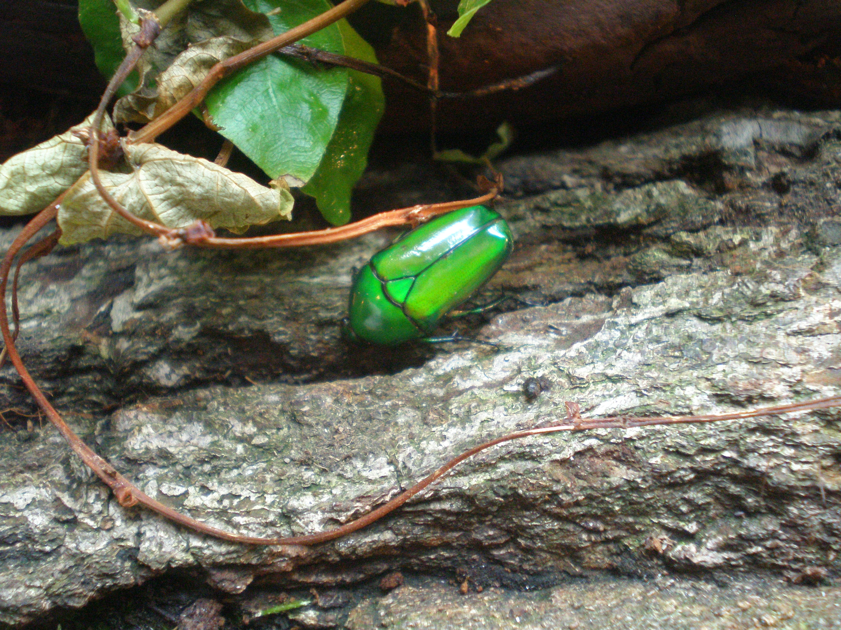 The Folwer Beetle (Smaragdesthes africana africana).